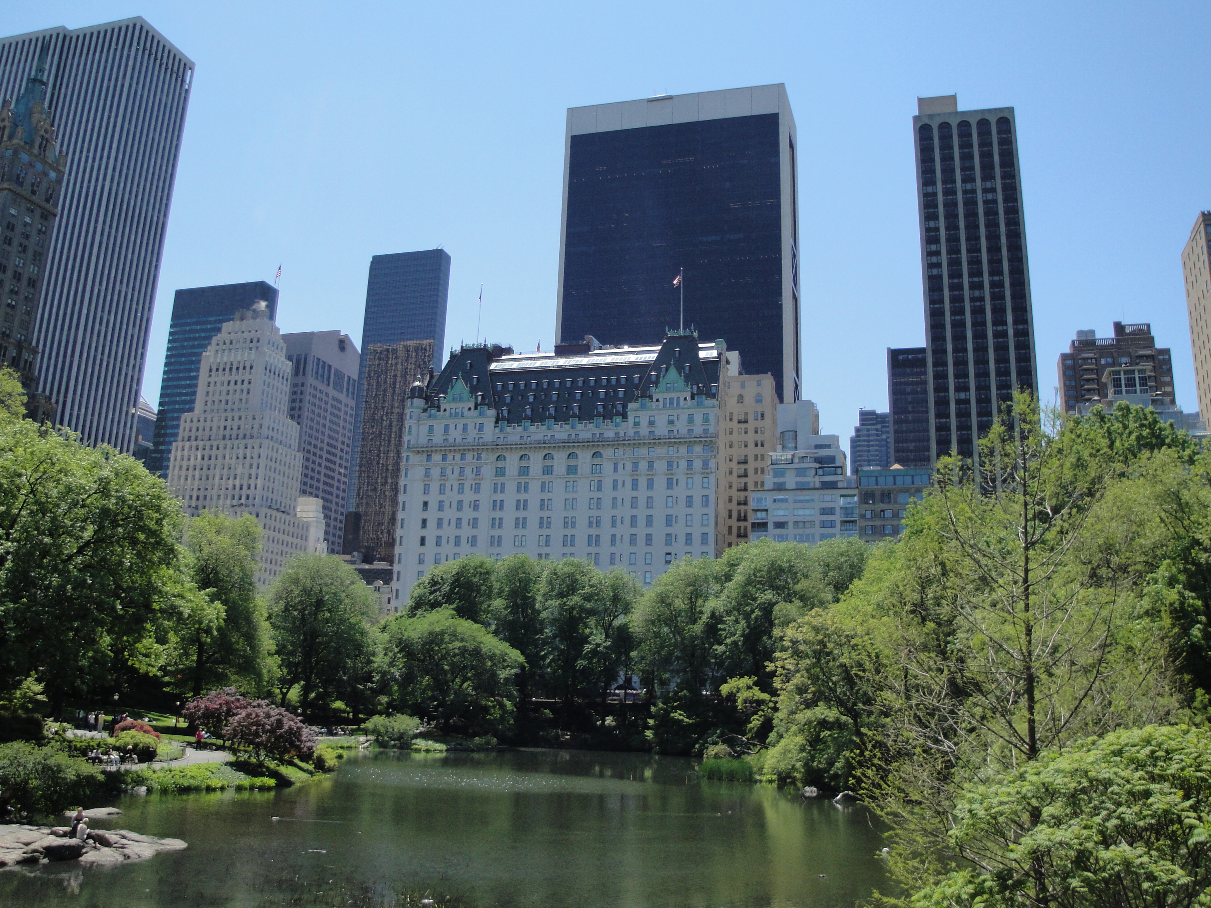 The Plaza Hotel in New York City as viewed from across the Pond in Central Park.